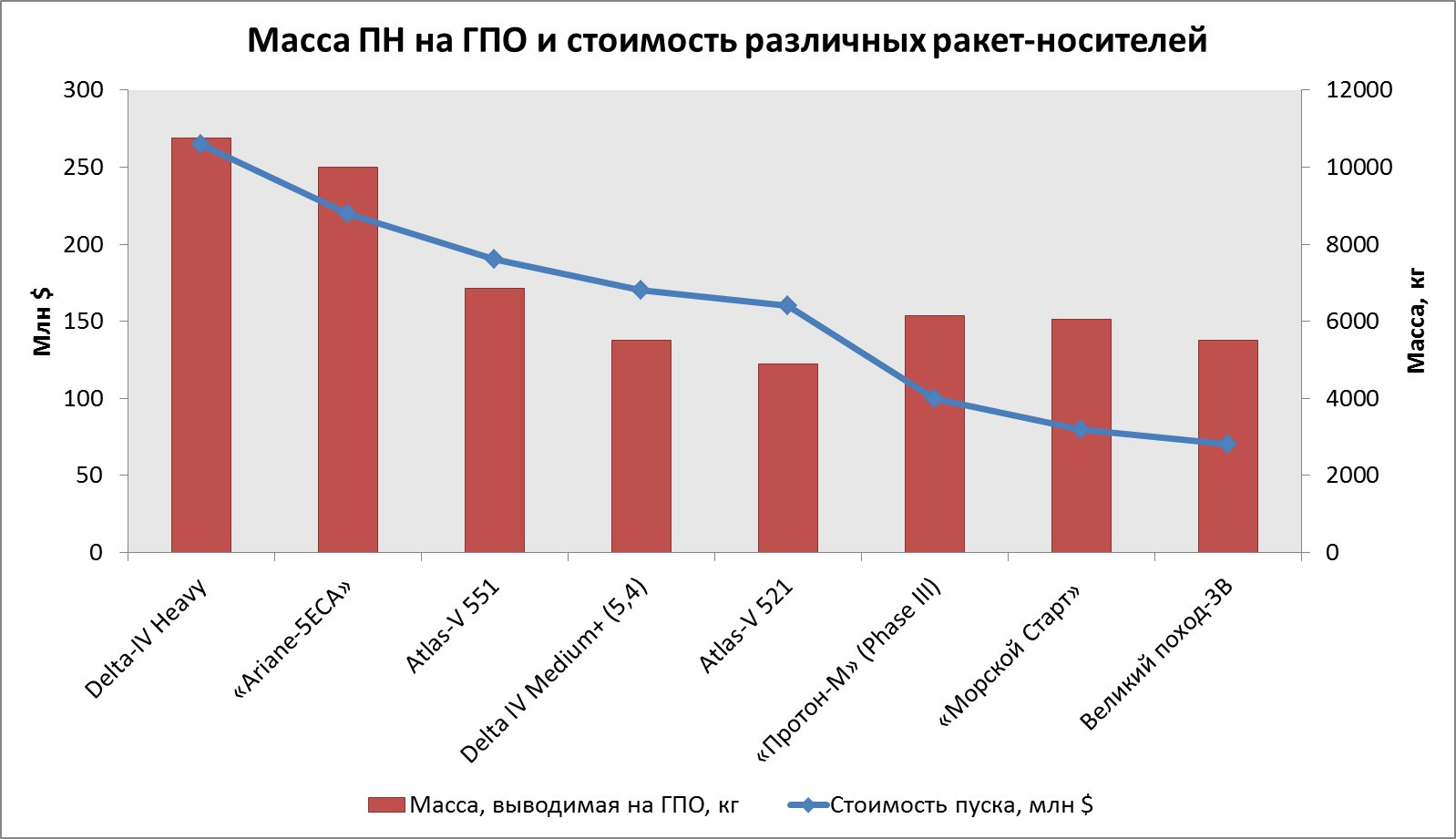 Performance to GTO vs. price of several heavy LVs